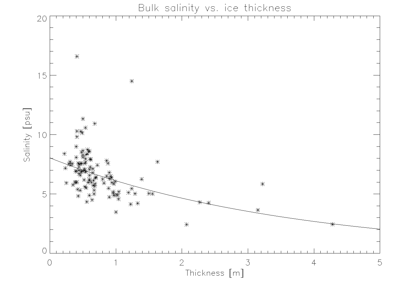 Plot of salinity versus ice thickness for ice cores taken from the Weddell sea, with fitted exponential. Data from Hajo Eicken (JGR 97 (C10): 15545–15557).